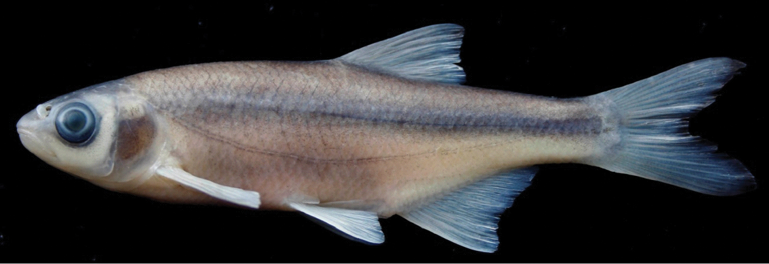 Alburnoides fasciatus, Turkey: Artvin Province: Aralık Stream, Çoruh River drainage, FFR 1003, female, 75 mm SL.